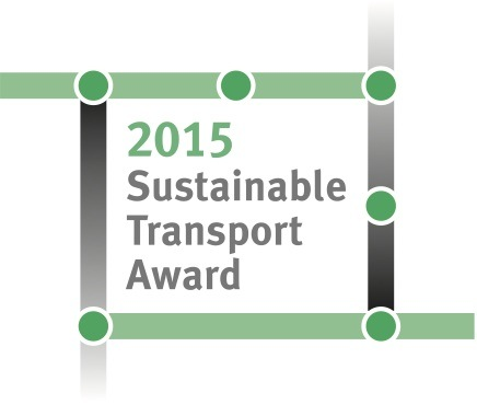 The logo for Sustainable Transport Award, 2015, given out by the STA committee.